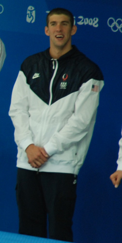 Michael Phelps before getting on the podium of the 100 meters butterfly, august 16th at Watercube, Beijing